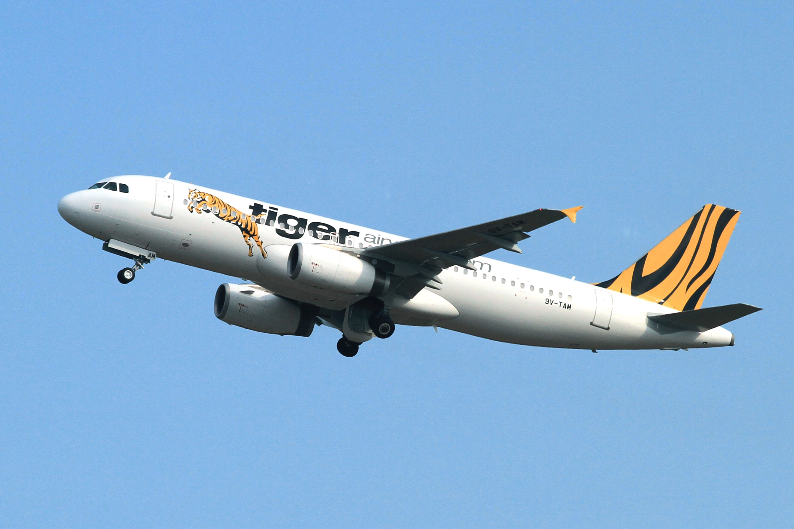 Climbing out from Runway 02C, Singapore Changi Airport, Airbus A320-232, c/n:4181 Tiger Airways(TR/TGW)